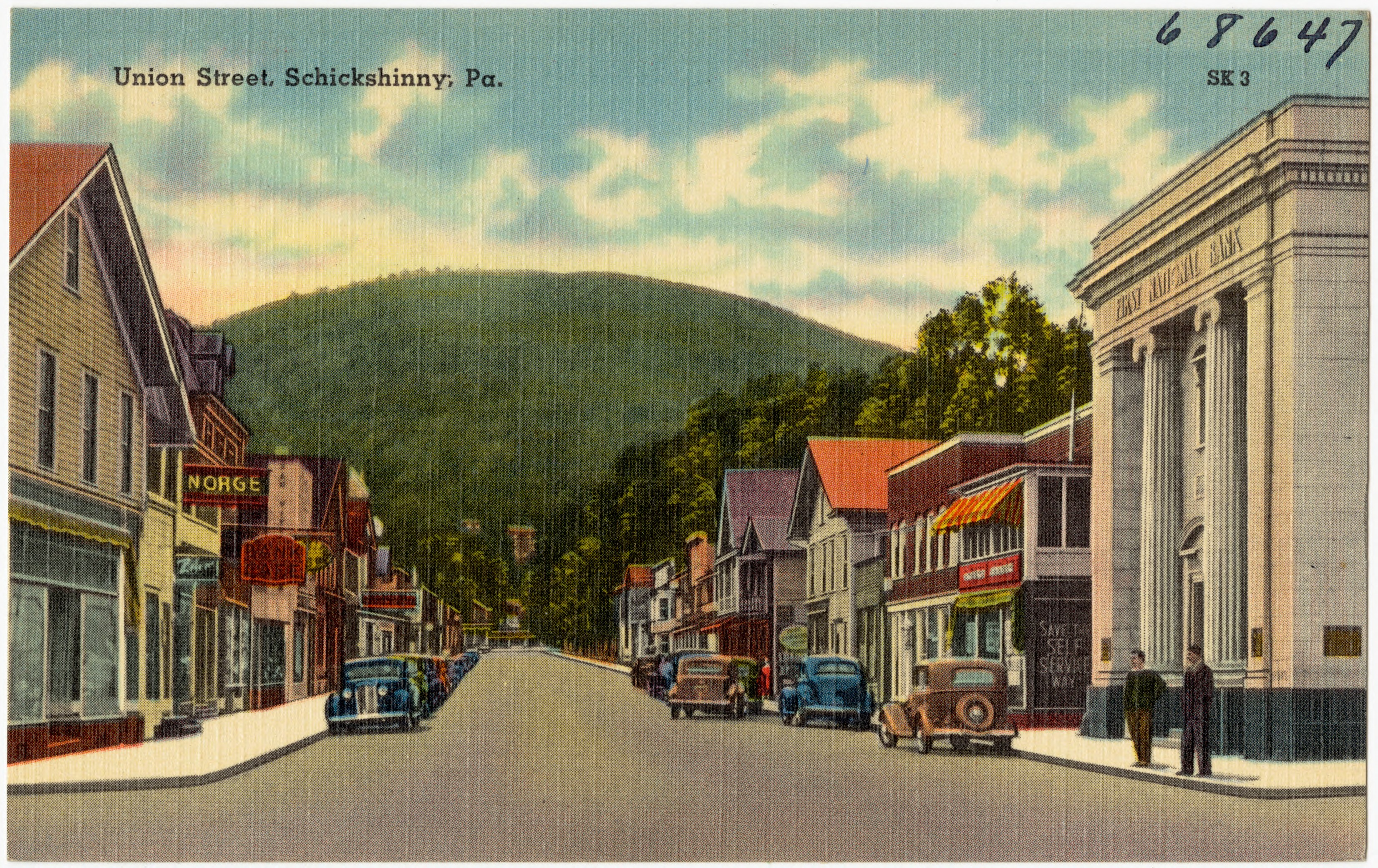 Title: Union Street, Shickshinny, Pa. Subjects: Cities & towns Places: Pennsylvania Notes: Title from item. Extent: 1 print (postcard) : linen texture, color ; 3 1/2 x 5 1/2 in. Accession #: 06_10_018321